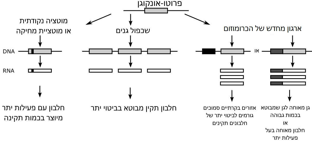 שלושת המנגנונים העיקריים המובילים להפעלה של אונקוגנים. משמאל לימין: מוטציה, שכפול גנים וארגון מחדש של הכרומוזום.